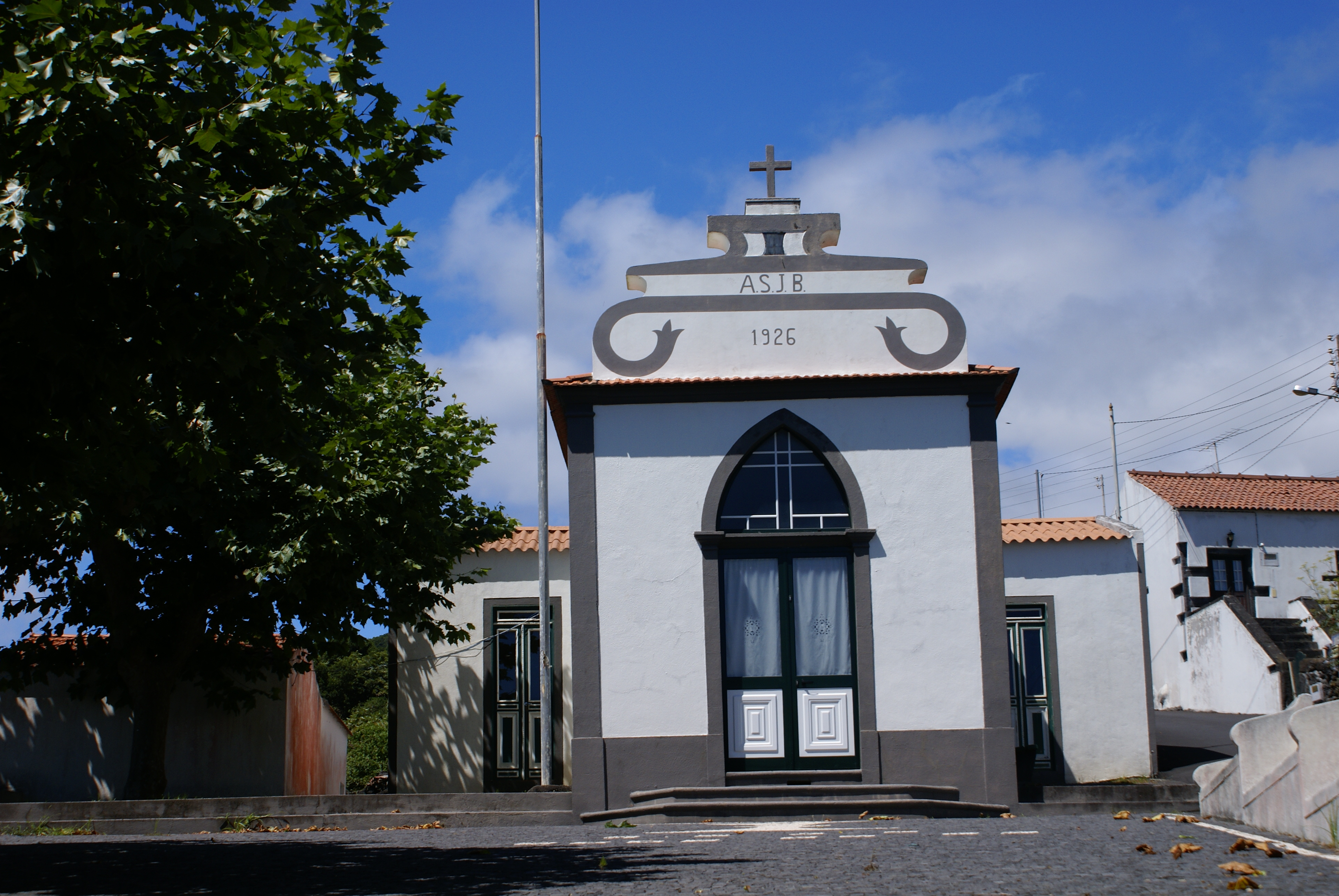 Império do Espirito Santo da Ginjeira, São Mateus, concelho da Madalena do Pico, ilha do Pico, Açores, Portugal